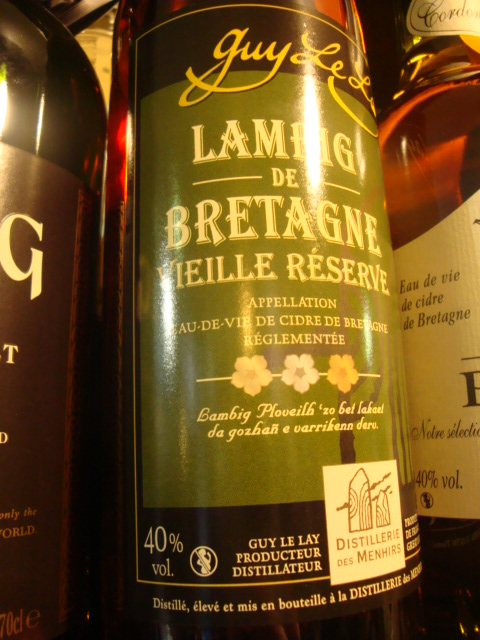 Lambig de Bretagne. A liquor produced in Brittany, France by distilling cider